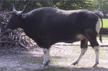 Banteng or Tembadau (Bos javanicus): black male